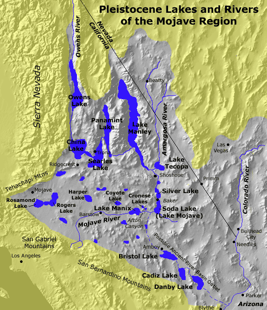 Pleistocene lakes and rivers of the Mojave Desert, as of 15,000 years ago.